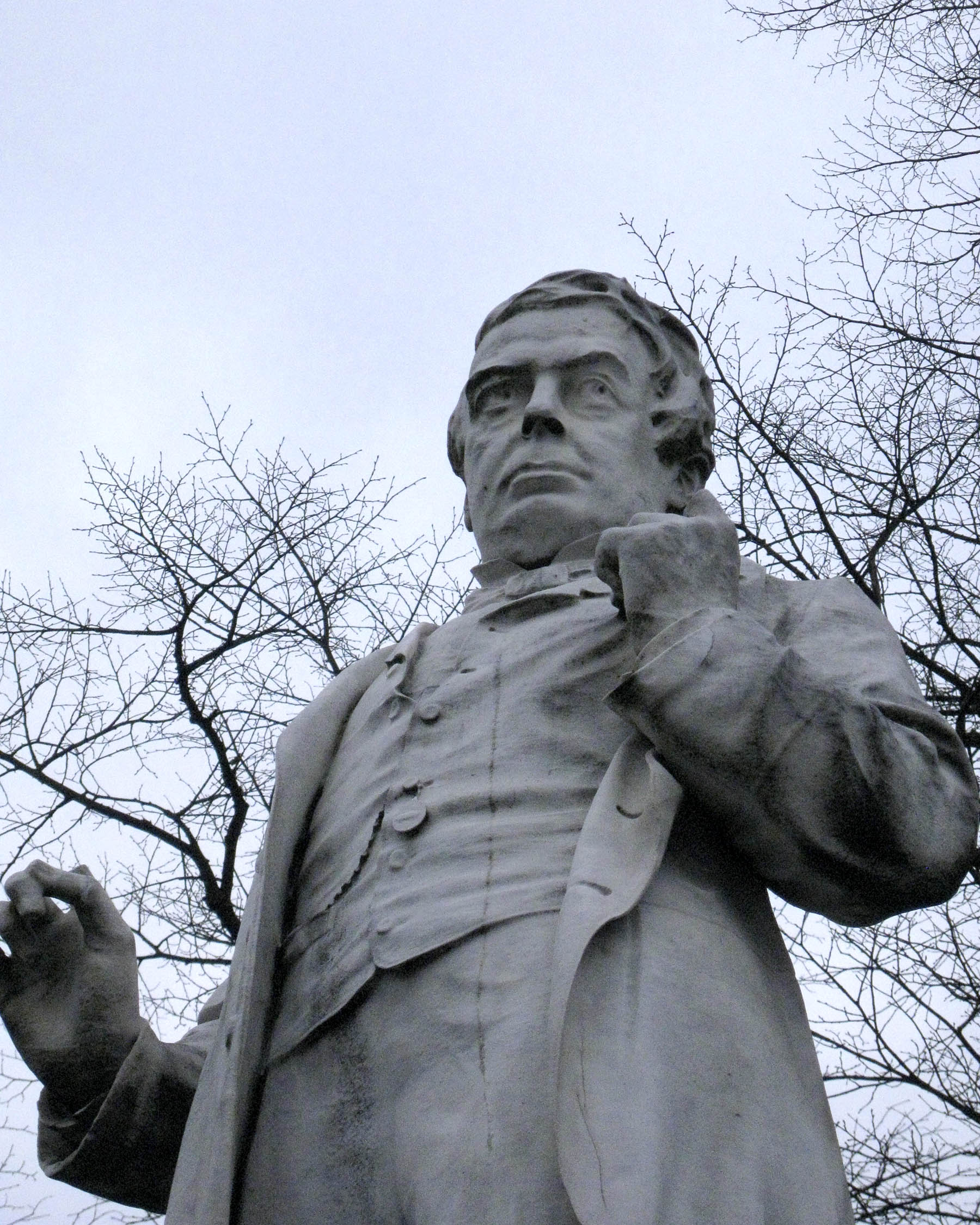 George Leeman 1809 - 1882 by G. W. Milburn Leeman was a successful lawyer and politician, but it was his impact on the railways that was his greatest legacy. He played a significant part in the investigations into illegal share dealings that led to the downfall of his political opponent, George Hudson, the “Railway King” . In 1849 he succeeded Hudson as Chairman of the York, Newcastle and Berwick Railway and promoted the mergers which created the North Eastern Railway Company in 1854. The North Eastern, with its headquarters in York, became one of the wealthiest railways in the country and he was chairman from 1874 to 1880. Born in York in 1809, articled to a York solicitor, Leeman established a very successful legal practice in 1835. An Alderman of the city for 28 years he was elected Lord Mayor on three occasions and was a Member of Parliament for York between 1865 and 1880.